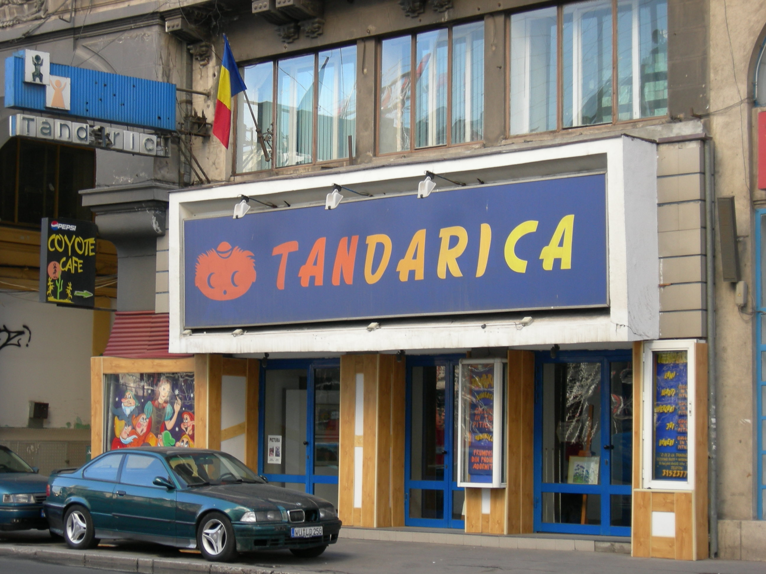 Tandarica theater (children's puppet theatre), Calea Victoriei, Bucharest, Romania